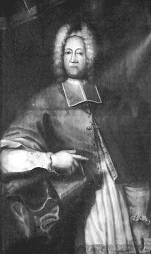 Image of George Louis of Berghes (1662-1743), Prince-Bishop of Liège from 1724 till 1743.